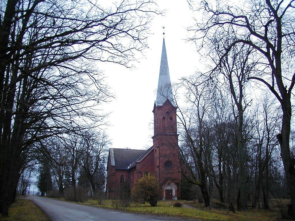 Lutheran Church in Mazsalaca, Latvia